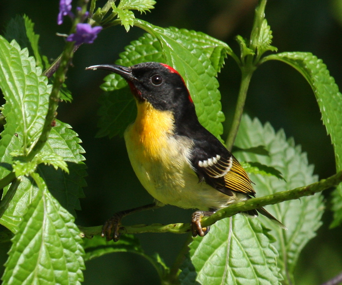 Orange-breasted Myzomela (Myzomela jugularis) male, De Voeux Peak, Taveuni, Fiji Isles